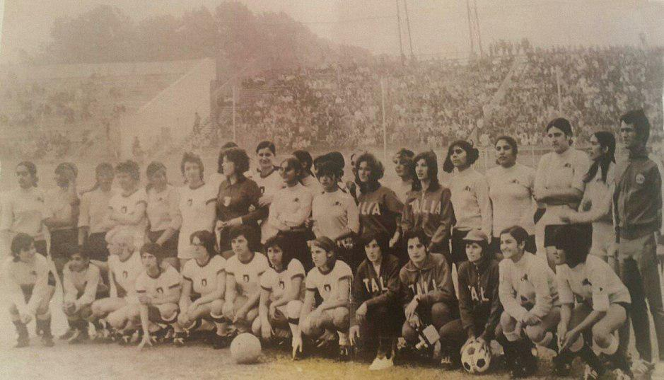 Taj Women